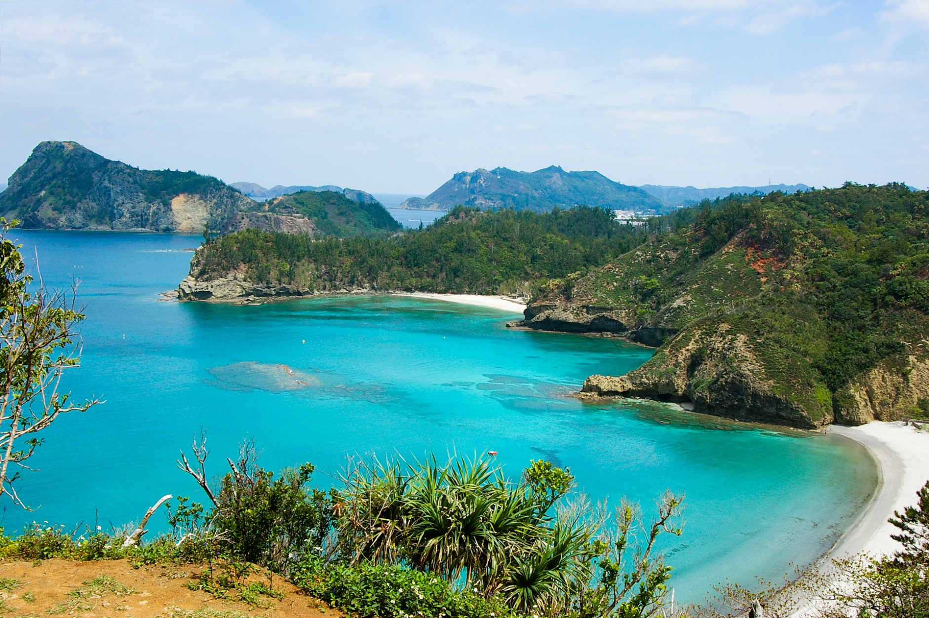 Kominato beach and Kopepe Beach from above, Chichi Island of the Ogasawara Islands, Tokyo, Japan